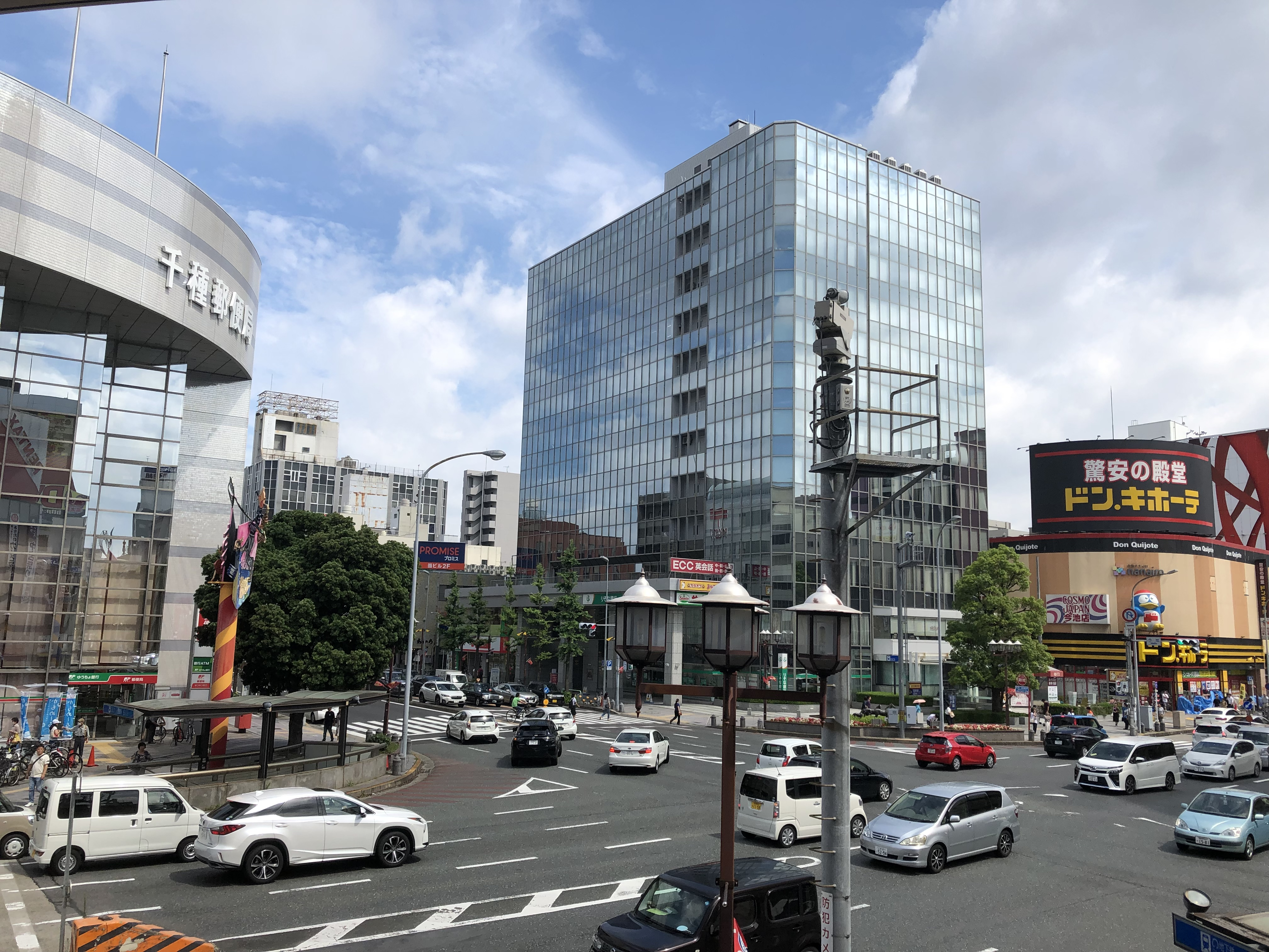 Imaike intersection02